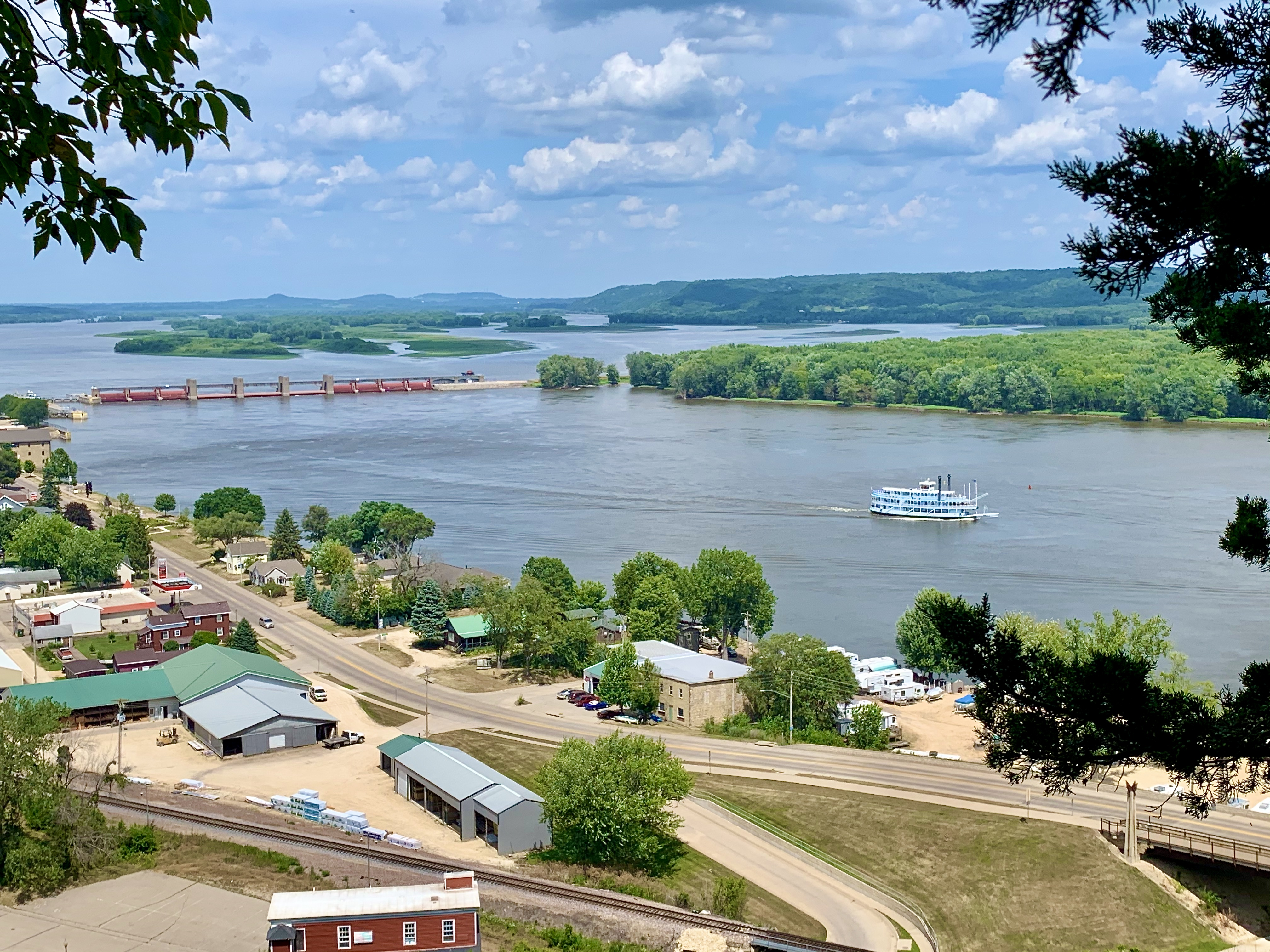 Mississippi River and Bellevue, Iowa as viewed from Bellevue State Park. Riverboat Twilight heads south on river.